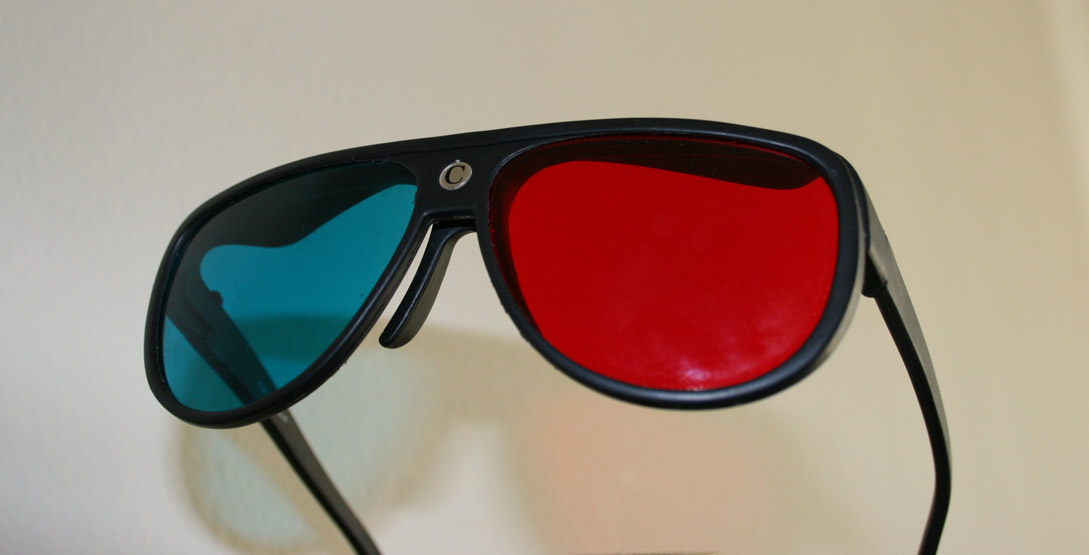 It took this photo personally with a permission required. Waived now to Commons, free use to public no copyrights apply